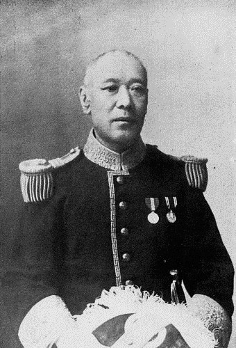 Sadayoshi Nonomiya